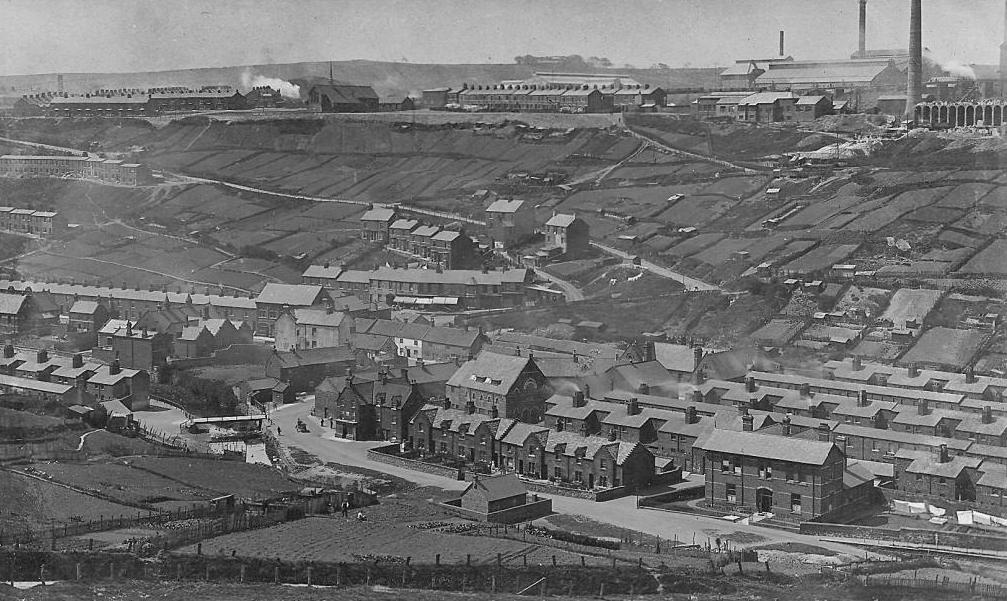 Cropped postcard, sepia tone edited out digitally. Title "Skinningrove from the cliffs" dated c. 1911"